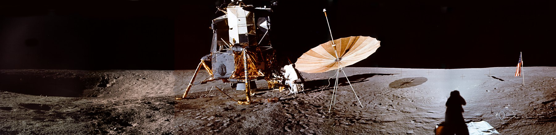 Apollo 12